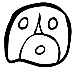 Maya:glyph:logogram:calendric:Tzolkin:Day20:Ajaw:codex+W:v01. Img created by CJLL Wright.